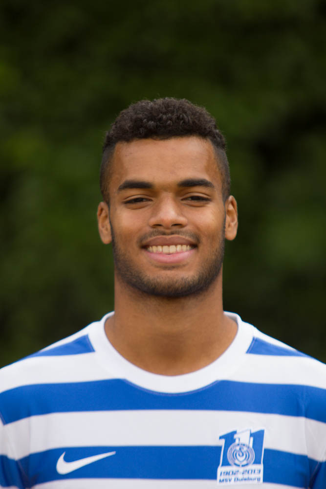 German-Ghanaian football player Phil Ofosu-Ayeh, MSV Duisburg